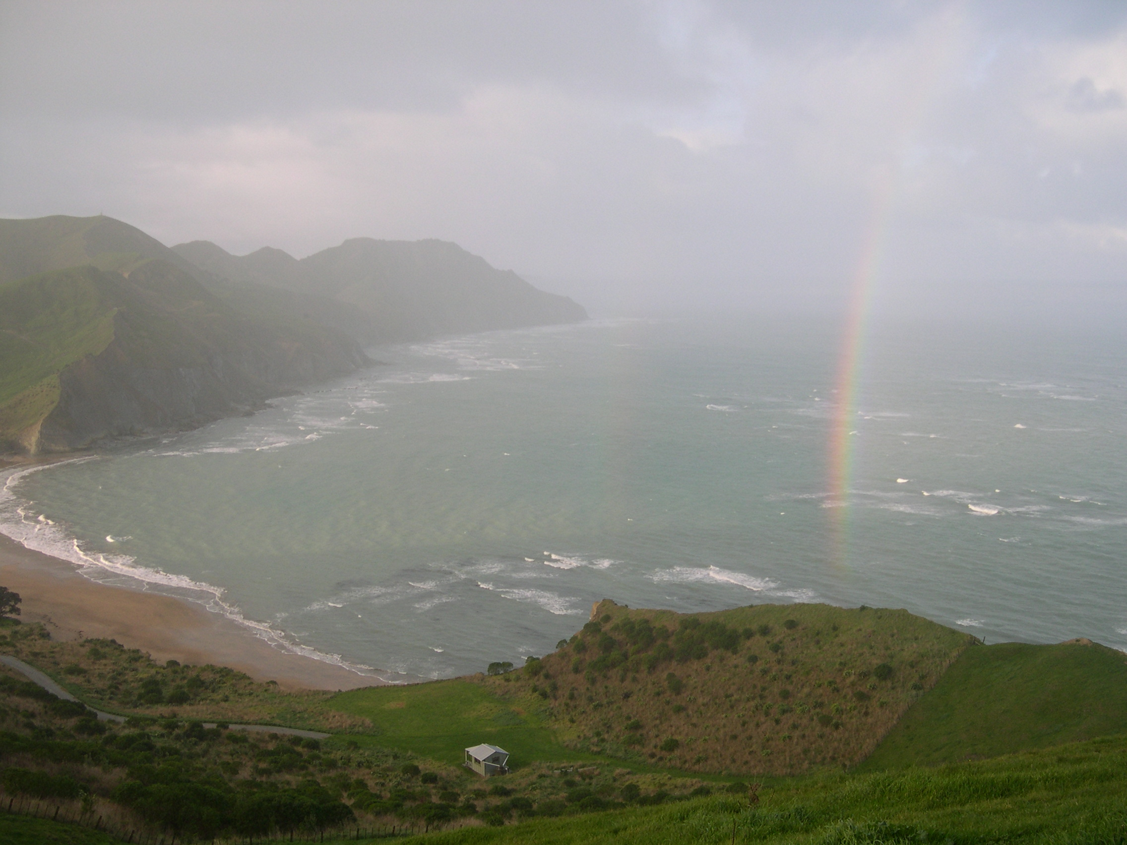 Rainbow over Waihi beach at southern side of Te Kuri a Paoa (Young Nick's Head)